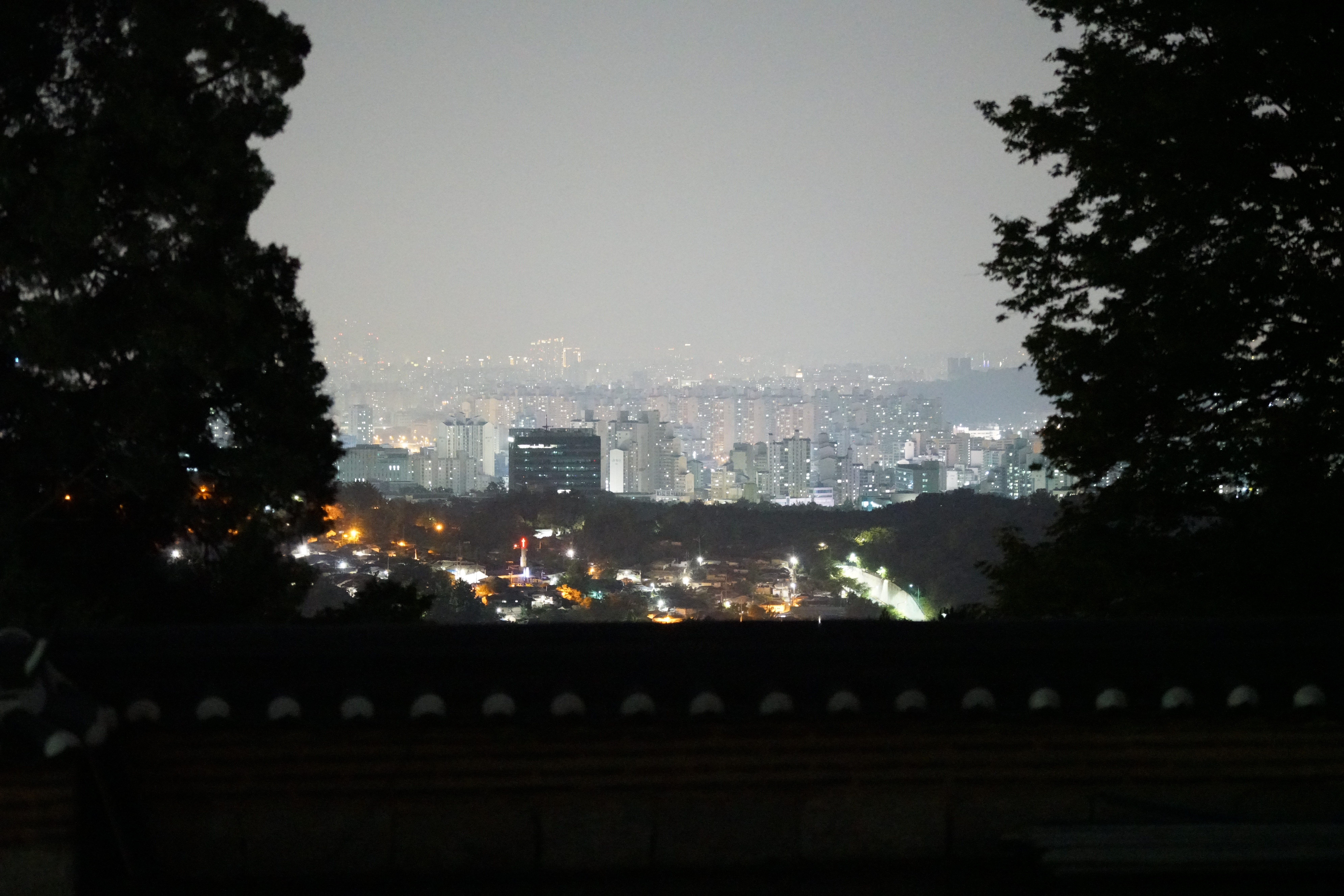 night view